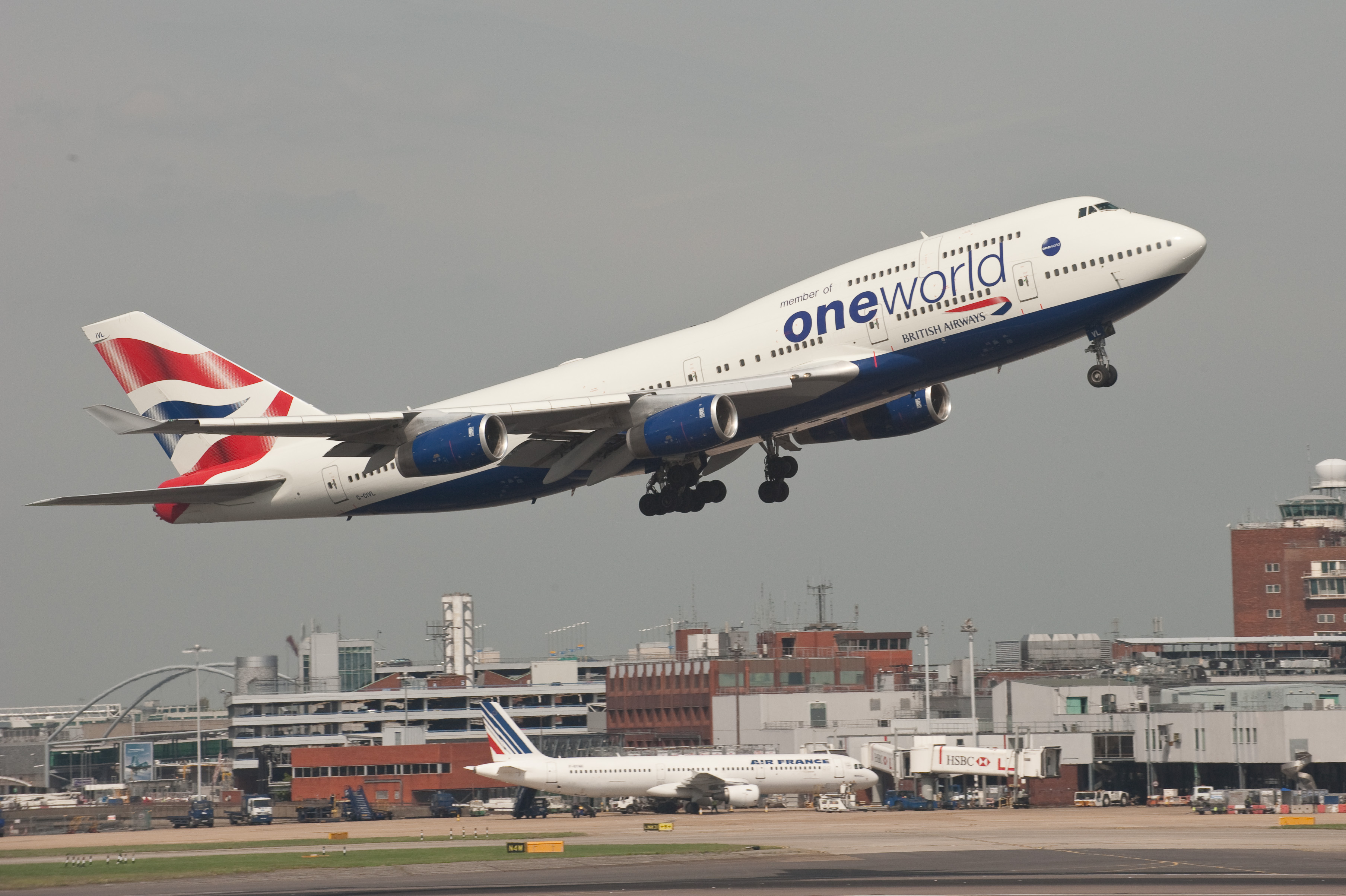 British Airways - Boeing 747 - London Heathrow